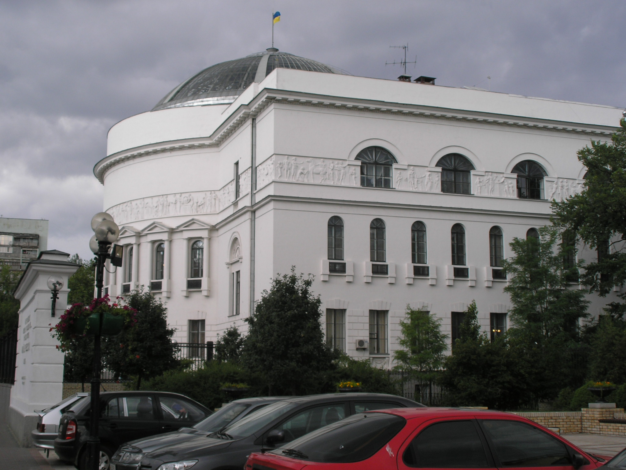 The meeting place of the Ukrainian Tsentralna Rada, the House of Teachers, in Kiev (Kyiv), the capital of Ukraine.